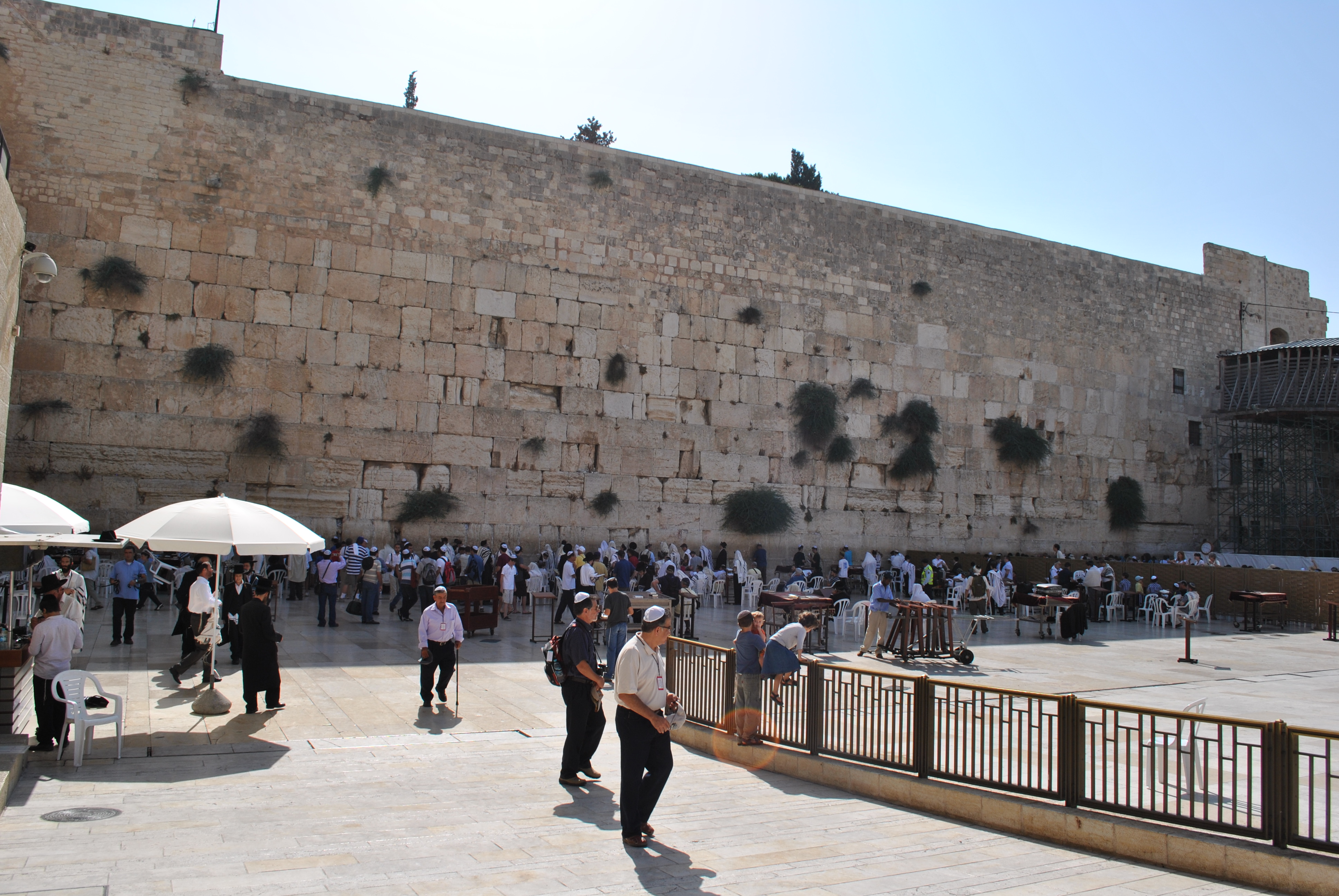 Western wall, Jerusalem, Israel